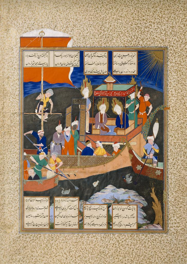 Shahnama (The Book of Kings) of Shah Tahmasp